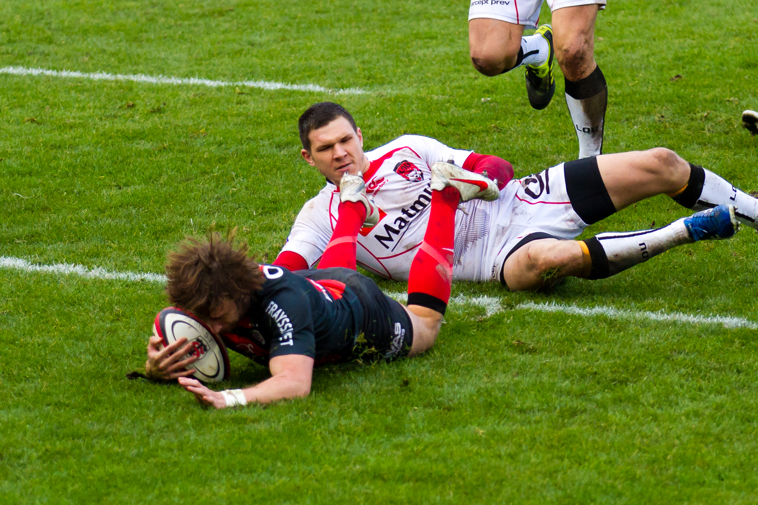 Top 14 — 7 January 2012, Stade Ernest-Wallon. Match between: Stade toulousain — Lyon olympique universitaire